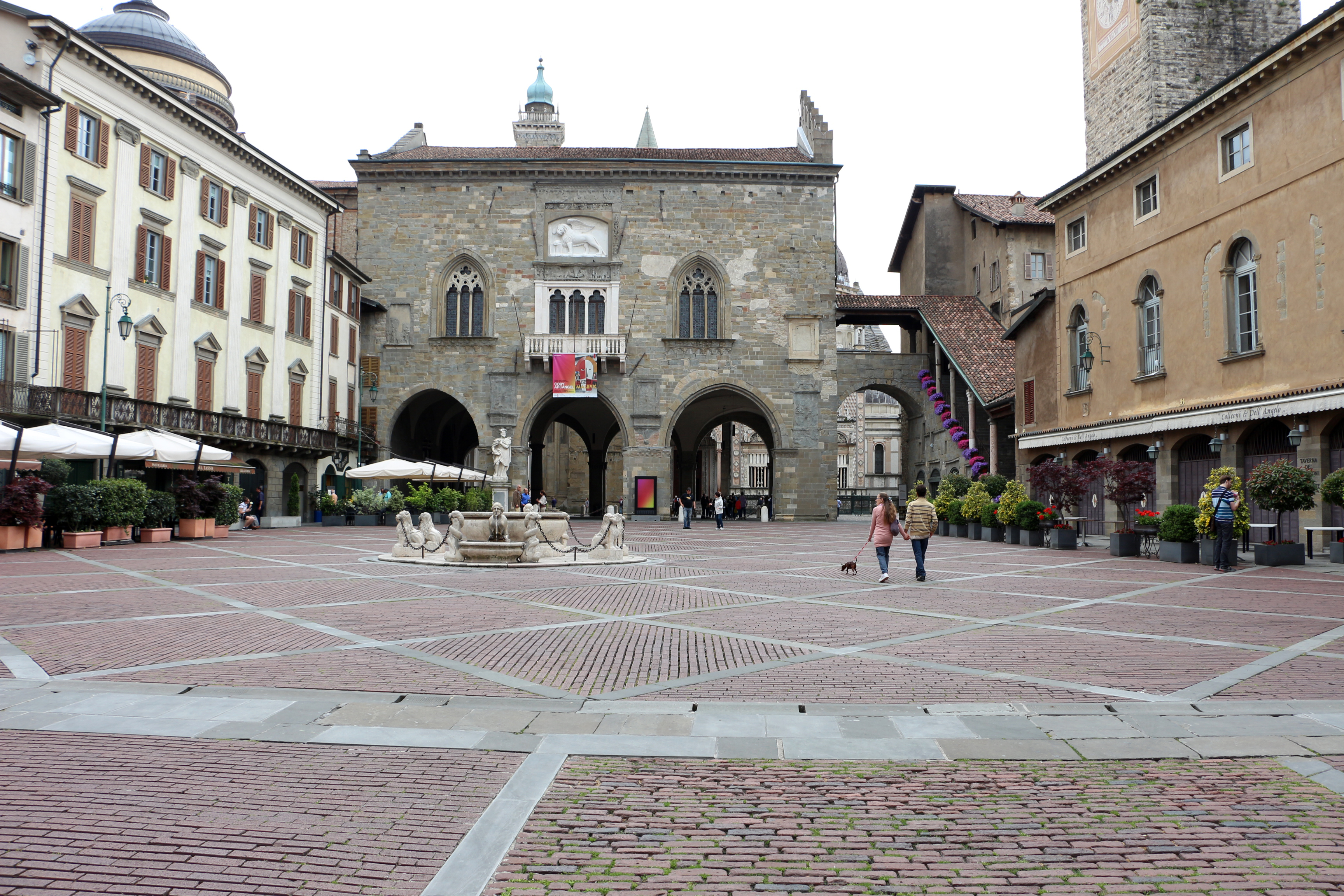 Bergamo